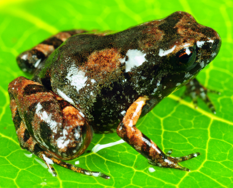 (A) N. madreselva (unvouchered female, SVL 18.9 mm) from Madre Selva, La Convención, Cusco; (B) Noblella sp. “SP” (male AC 95.09, SVL 13.1 mm) from San Pedro, Paucartambo, Cusco; (C) N. pygmaea from Wayqecha, Paucartambo, Cusco (female holotype, MUSM 26320, SVL 12.4 mm); (D) N. thiuni sp. n. from Thiuni, Carabaya, Puno (male holotype, CORBIDI 18723, SVL 11.0 mm). Photographs by A Catenazzi.